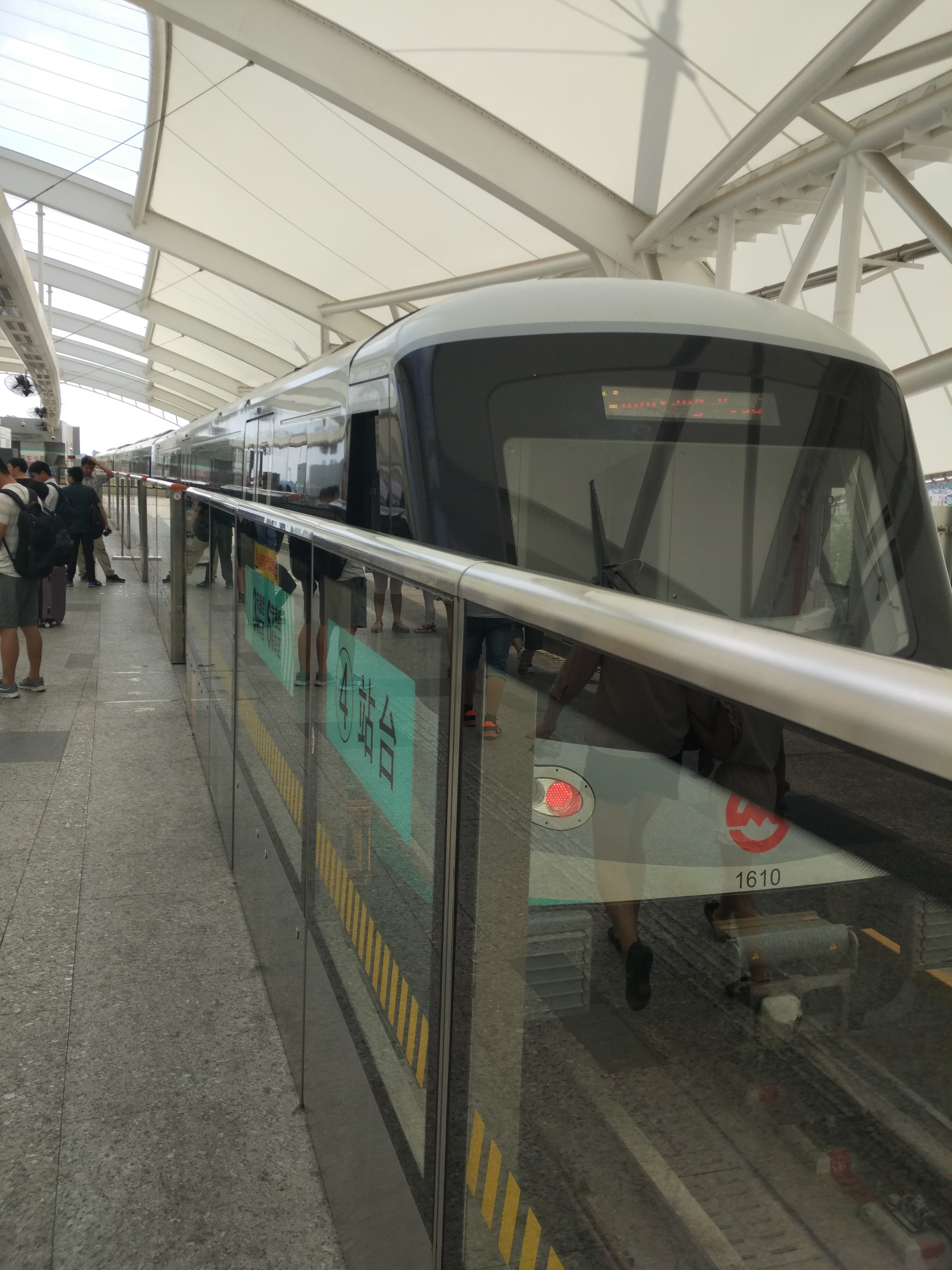 上海地铁16号线龙阳路站第四站台的站台闸门